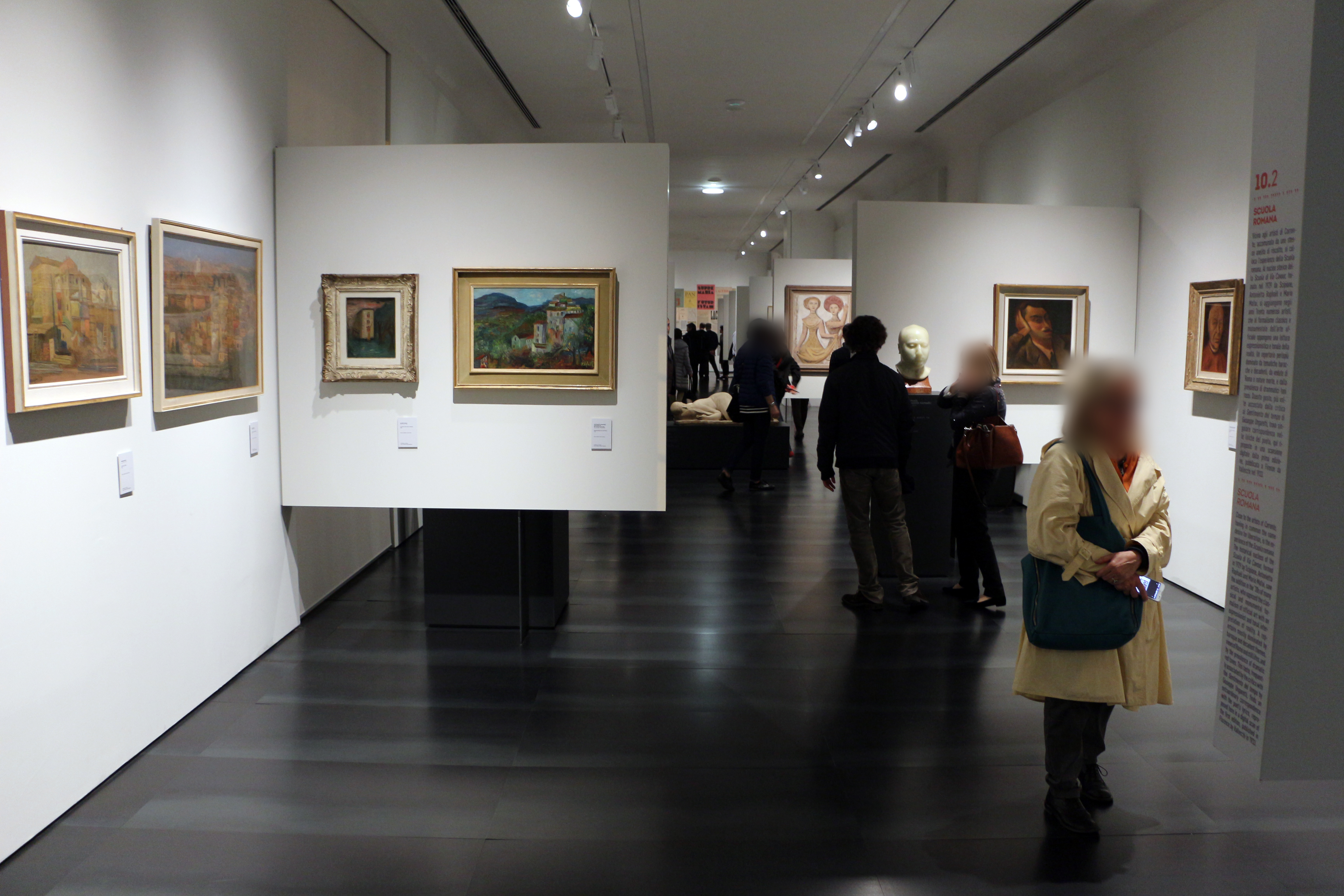 Museo del Novecento (Florence)